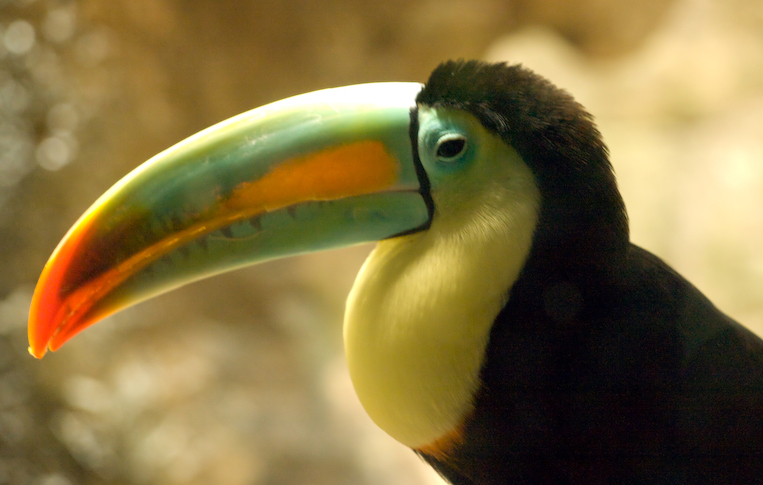 Keel-billed Toucan (also known as Sulfur-breasted Toucan and the Rainbow-billed Toucan) at Faunia, a zoo park in Madrid, Spain.